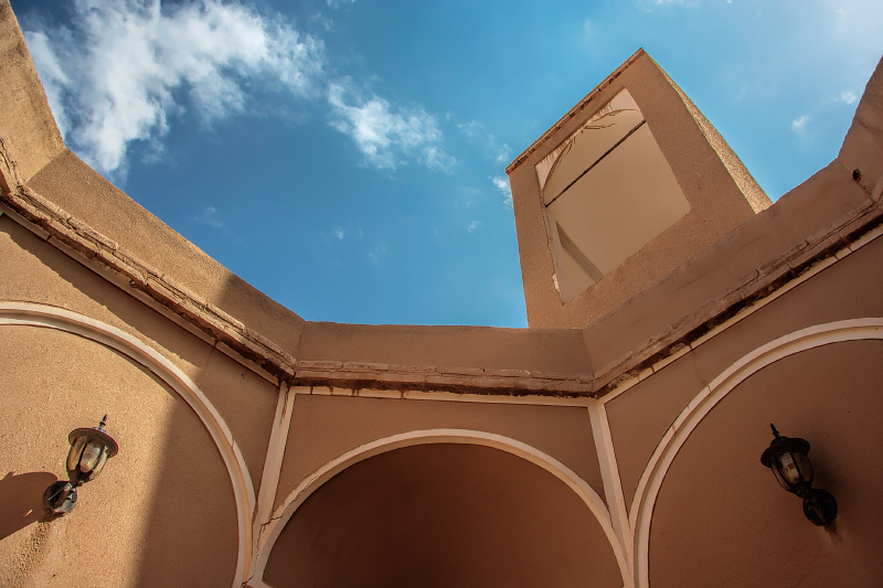 نمایی از ساختمانی واقع در شهر قدیمی اردکان عکس: امیررضا توسلی